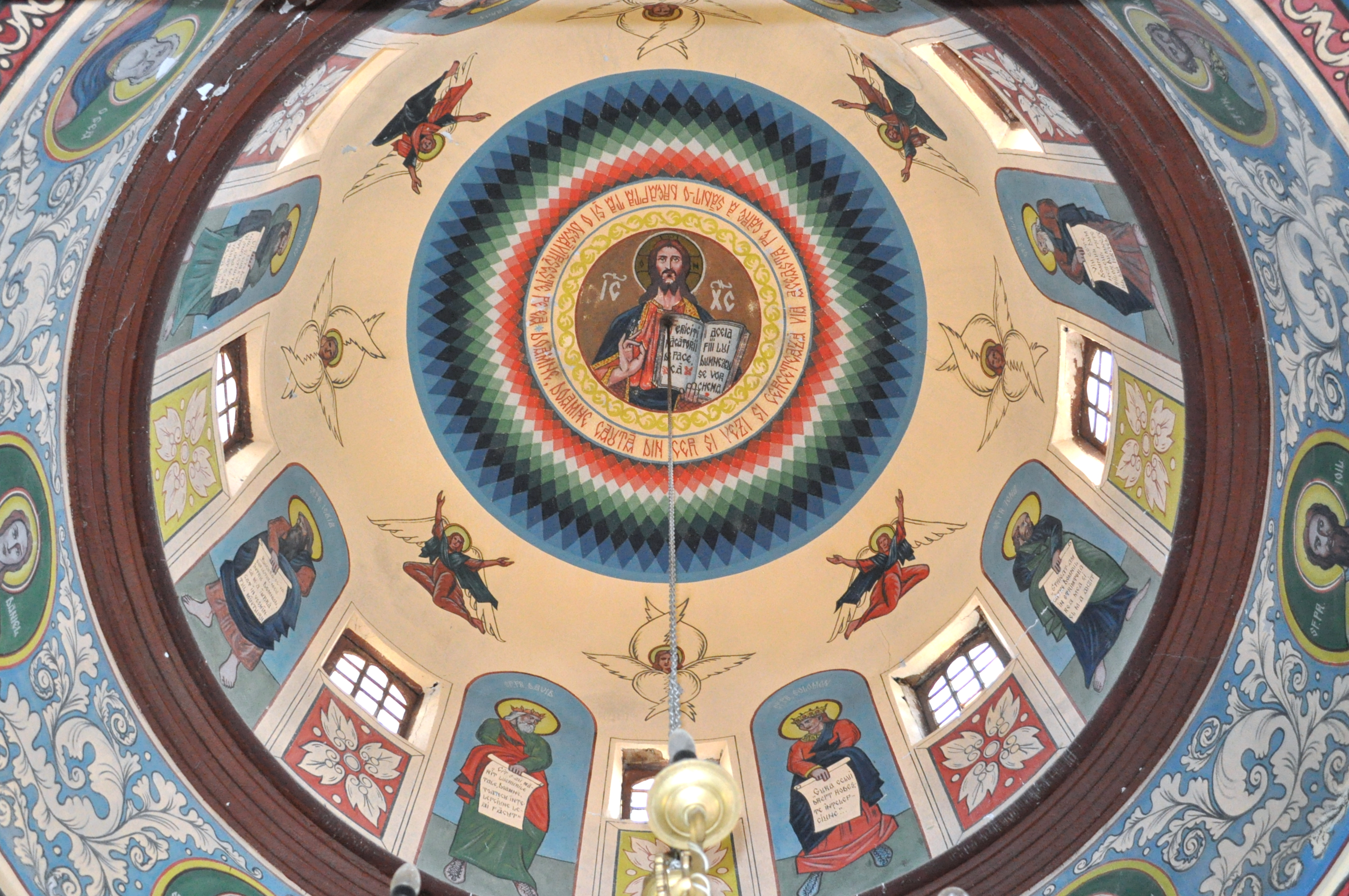 Saint Nicholas wooden church in Groș, Hunedoara county, Romania